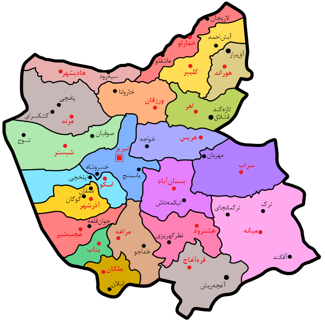 East Azerbaijan Districts